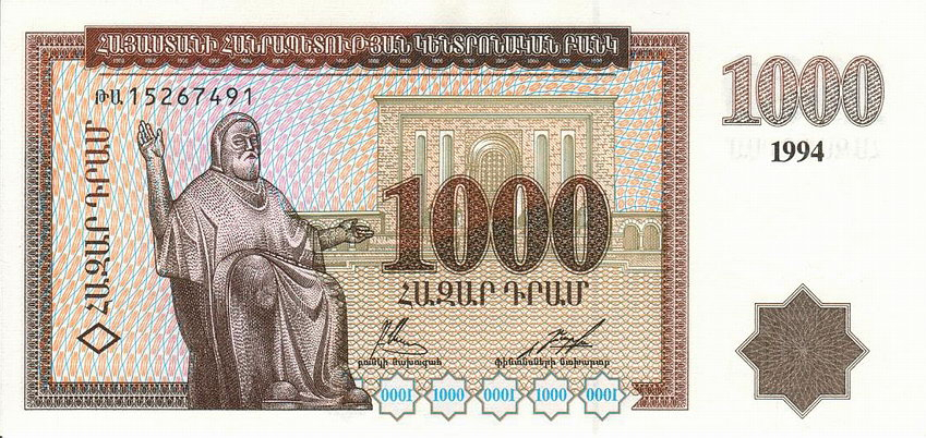 1000 dram 1994